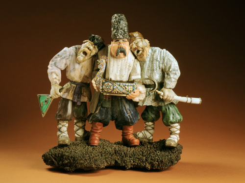 The gem sculpture "Bosom Pals" by Vasily Konovalenko. This image is from the image archives of the Denver Museum of Nature and Science, Denver, Colorado USA. Archive file name IV.DMF.1-15.c.jpg. Catalog number DMF.1-15.c. The sculpture, along with about 20 others, is on display at the Museum. Used in the Wikipedia page Vasily_Konovalenko.